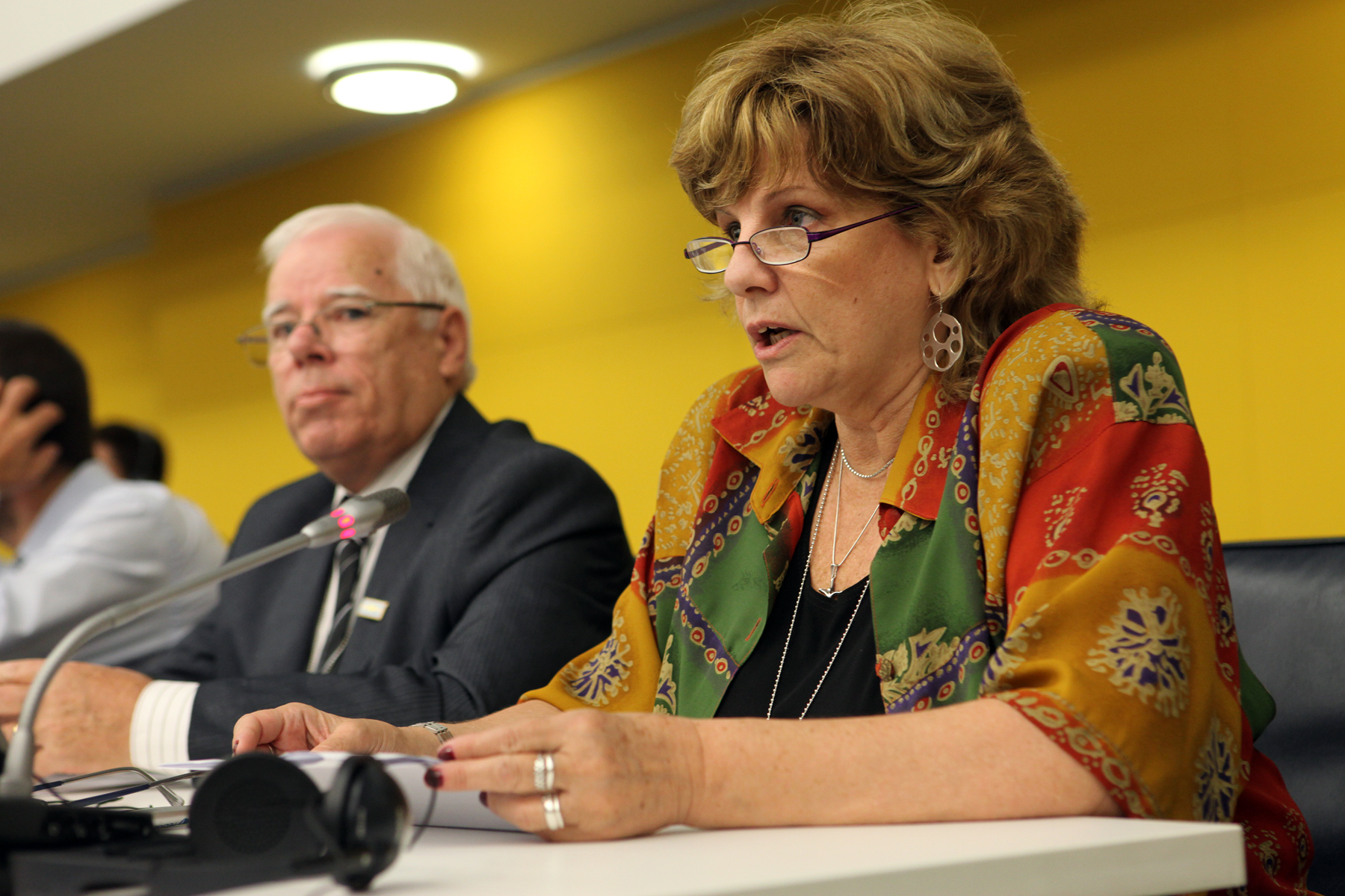 María Angélica Vernet and Alejandro Betts Petition the UN 21/6/11. New York.